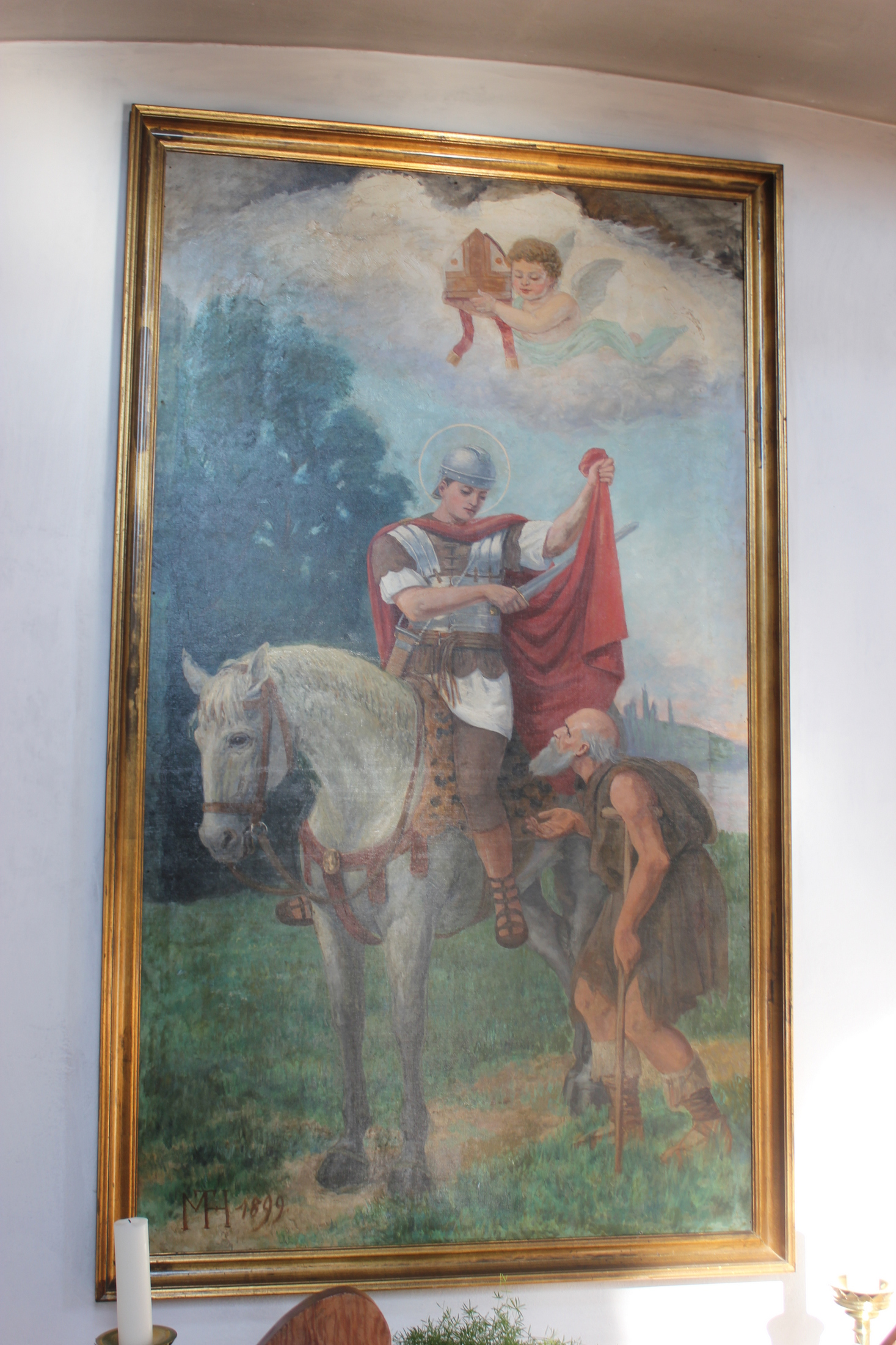 Roman-catholic church of St. Martin in Nebelschütz/Njebjelčicy, Bautzen district, Saxony.